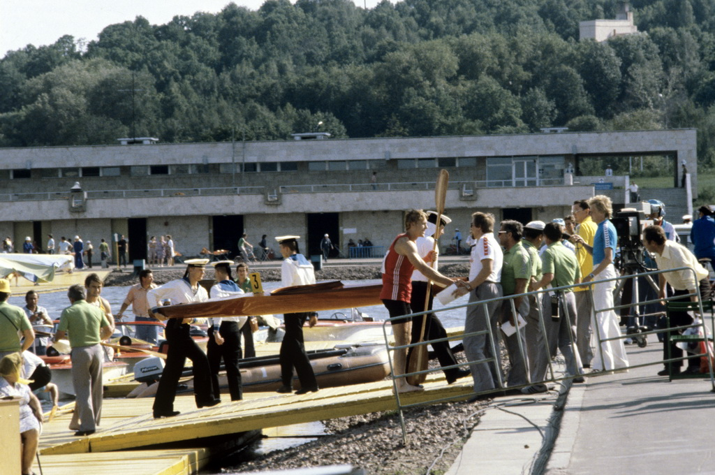 “Journalists greeting three-time Olympic winner in kayaking Vladimir Parfenovich”. The 22nd Summer Olympic Games. Krylatsky canal. Journalists greeting three-time Olympic winner in kayaking Vladimir Parfenovich.